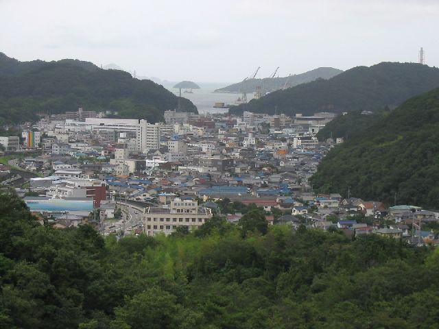 Aioi, looking south towards the Seto Inland Sea. Photo by David Dewey. Source URL